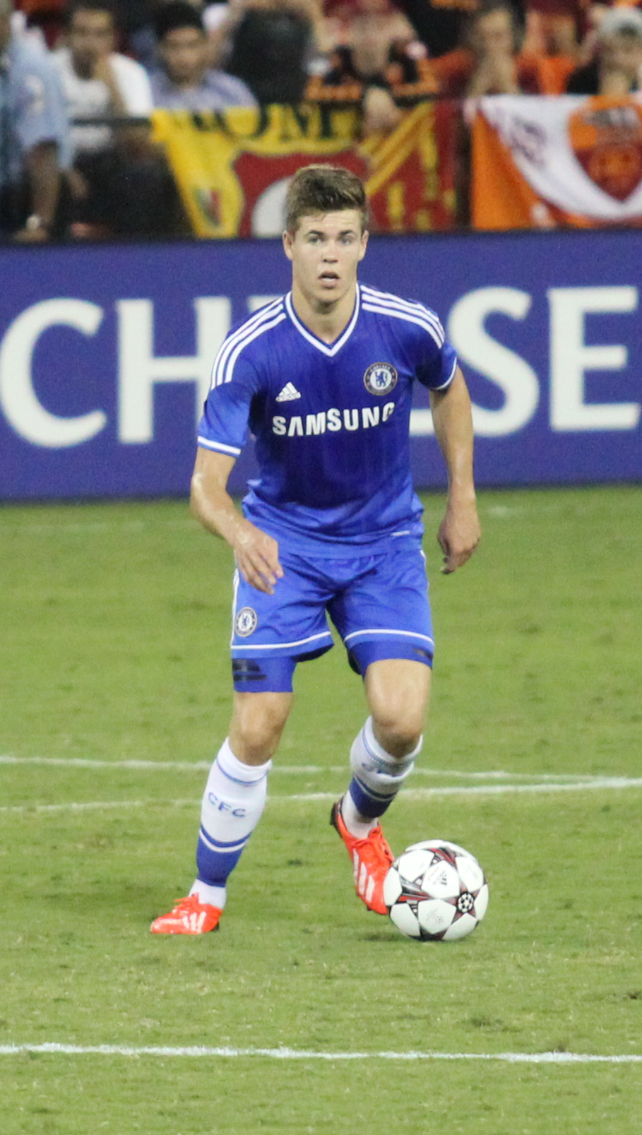 Chelsea vs. AS Roma at RFK Stadium, Washington, DC August 10, 2013